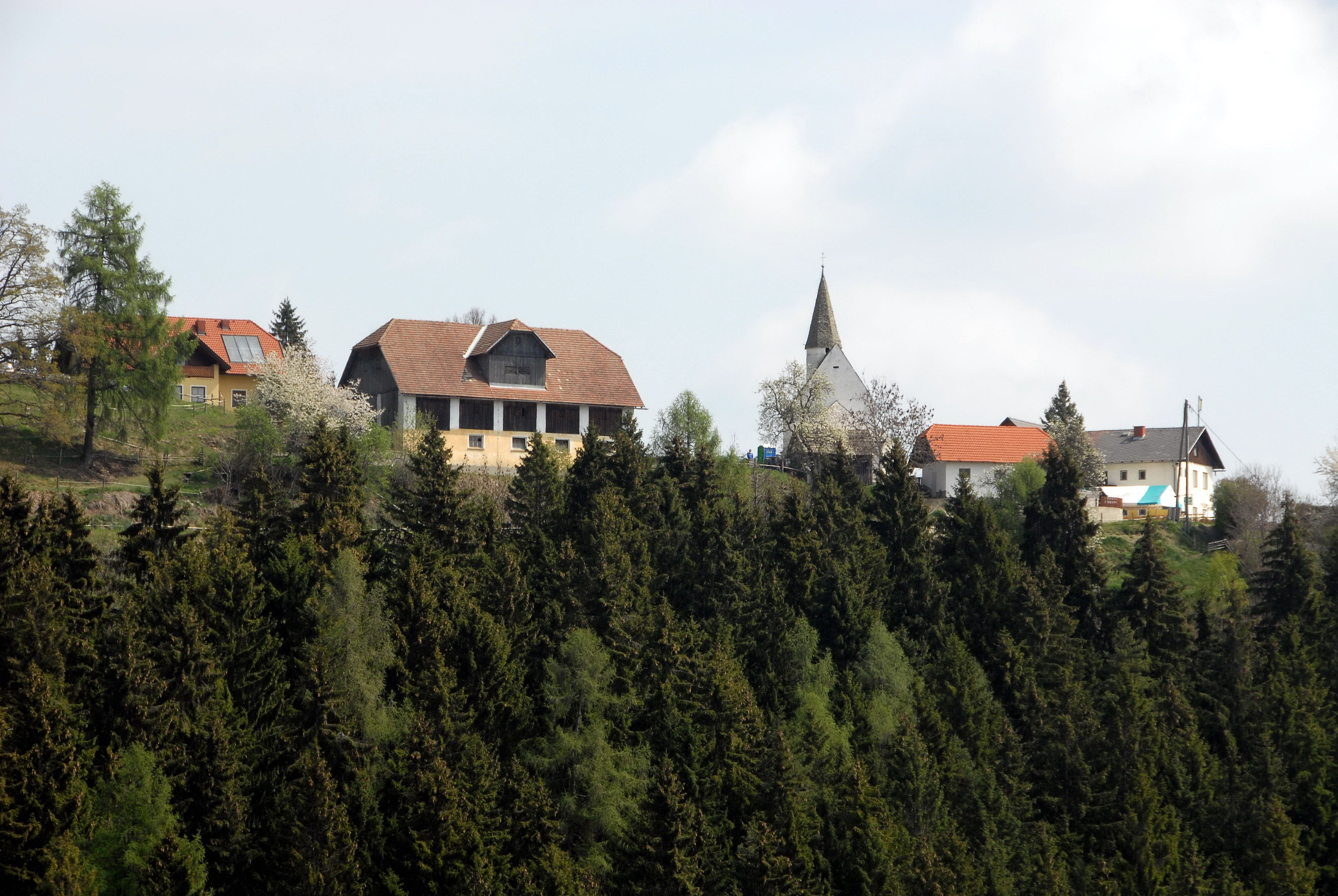 Subsidiary church Saint Lawrence in Lorenziberg, municipality Frauenstein, district Sankt Veit, Carinthia, Austria, EU